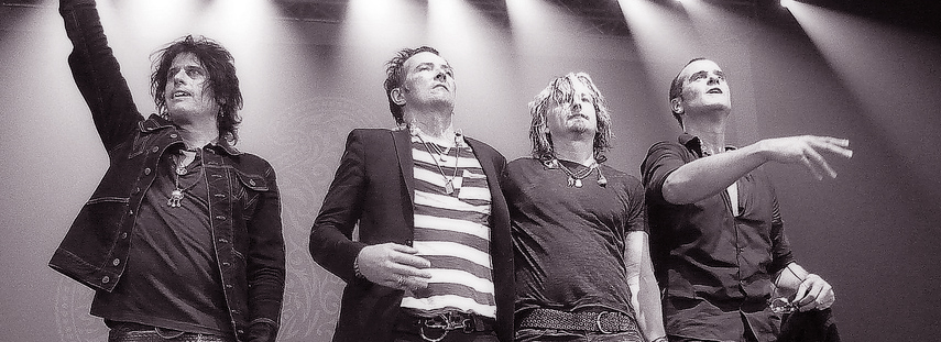 Dean DeLeo, Scott Weiland, Eric Kretz, and Robert DeLeo at the end of their performance. Venue was the Araneta Coliseum in Manila, Philippines (location source). Photographed on March 9, 2011 with a Panasonic DMC-FS3.